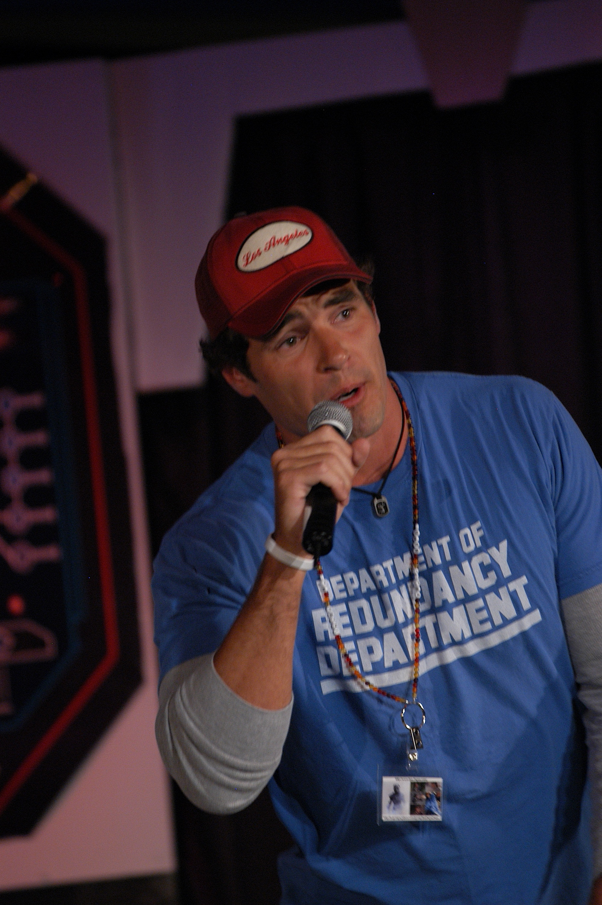 Dan Payne at the Gatecon 2005 convention in Vancouver (Canada).